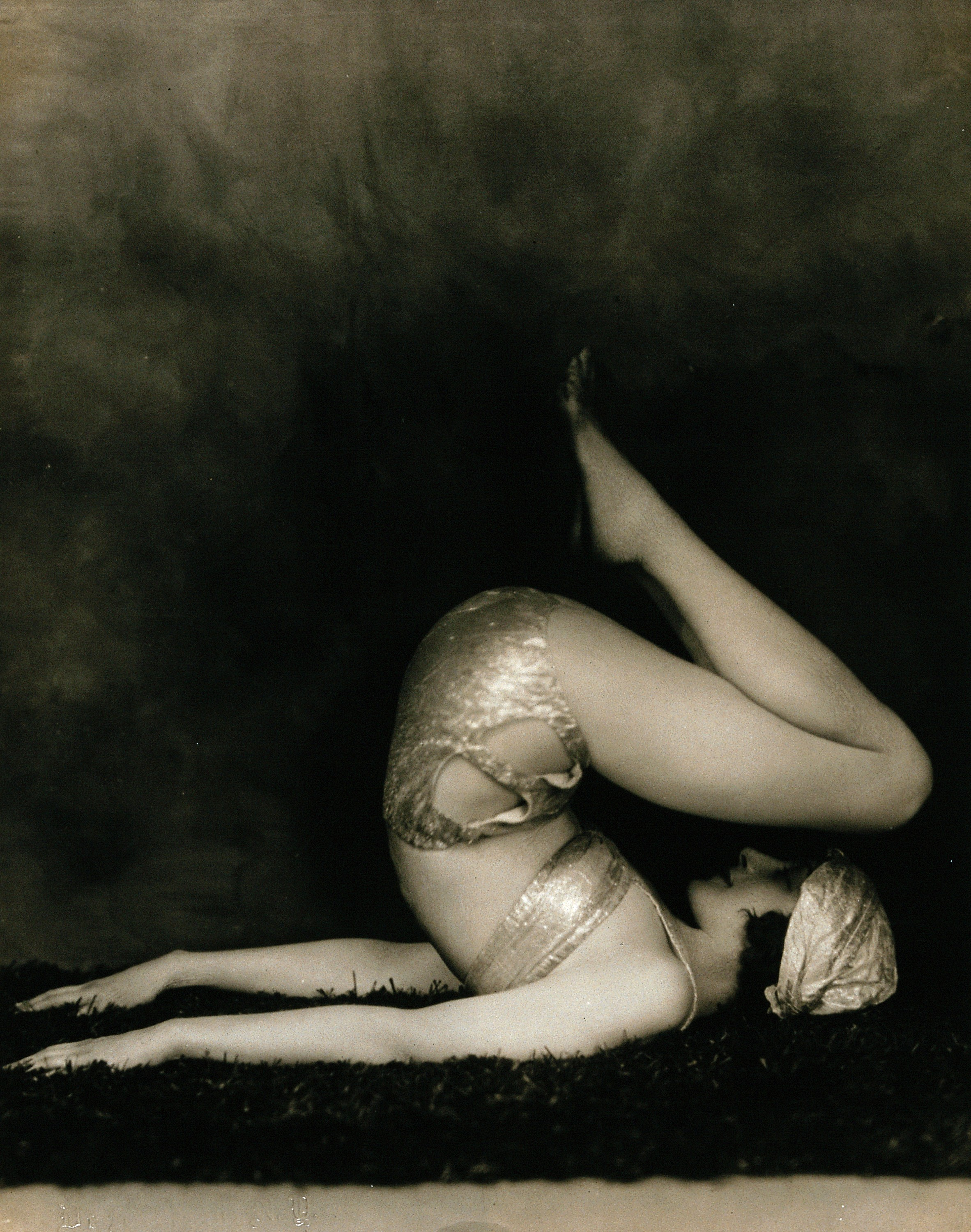 Marguerite Agniel preparing to go up into Sarvangasana, shoulder stand, wearing a revealing silver (?) two-piece costume and matching turban, on a rug, in a photographic studio. Photograph by J. de Mirjian, ca.1929. Iconographic Collections Keywords: de Mirjian Studios; Marguerite Agniel; Gymnastics; Exercise; Women